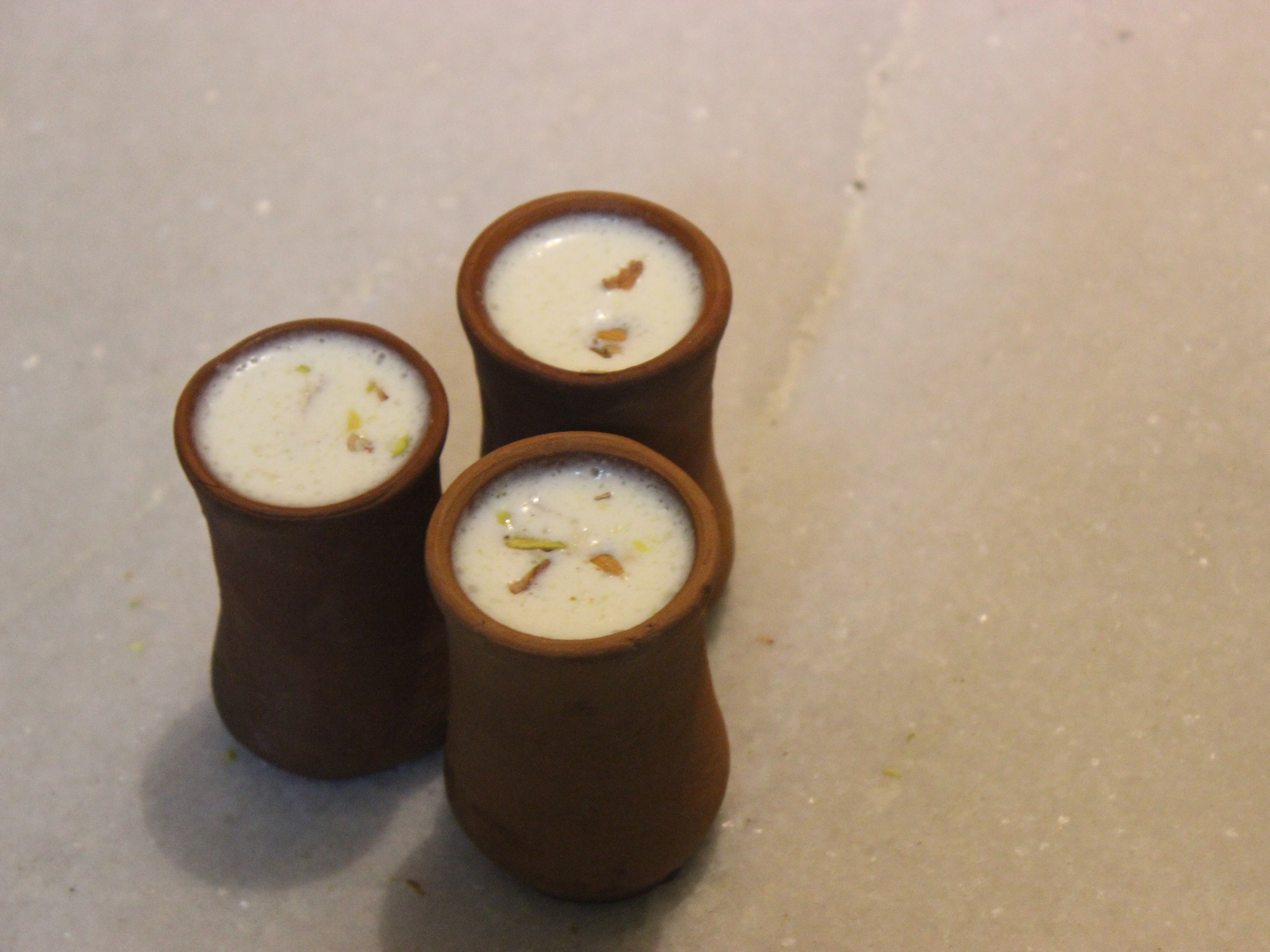 Local Sweet Dish Of India